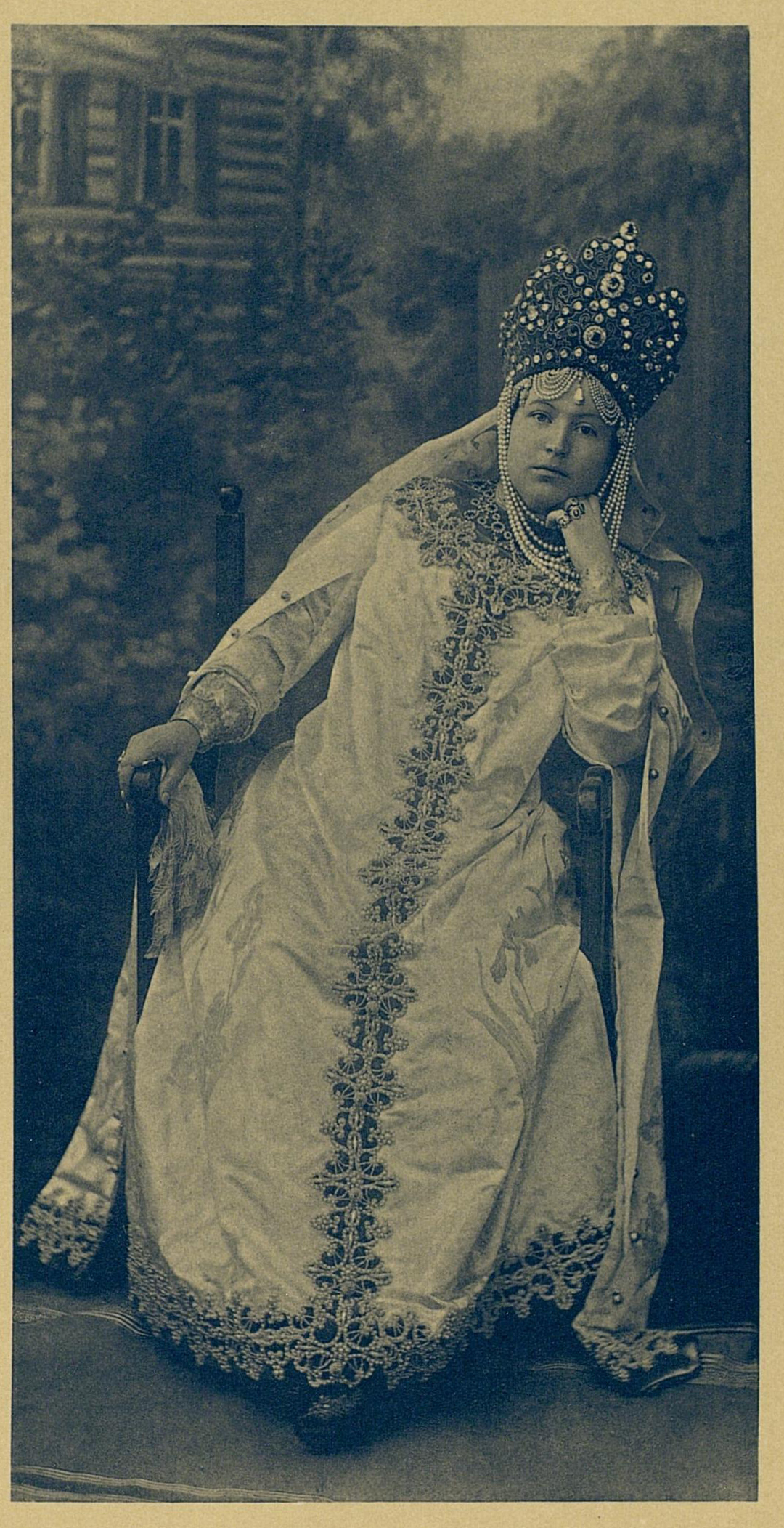 Maria Nikolaevna, Duchess of Leuchtenberg, née Countess Grabbe